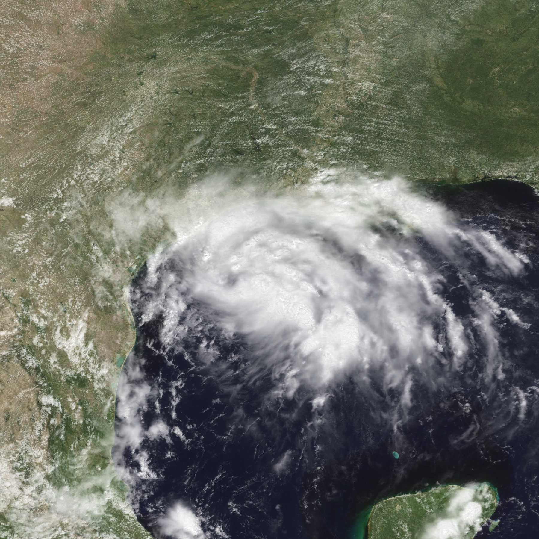 Tropical Storm Charley shortly after being named on August 21, 1998